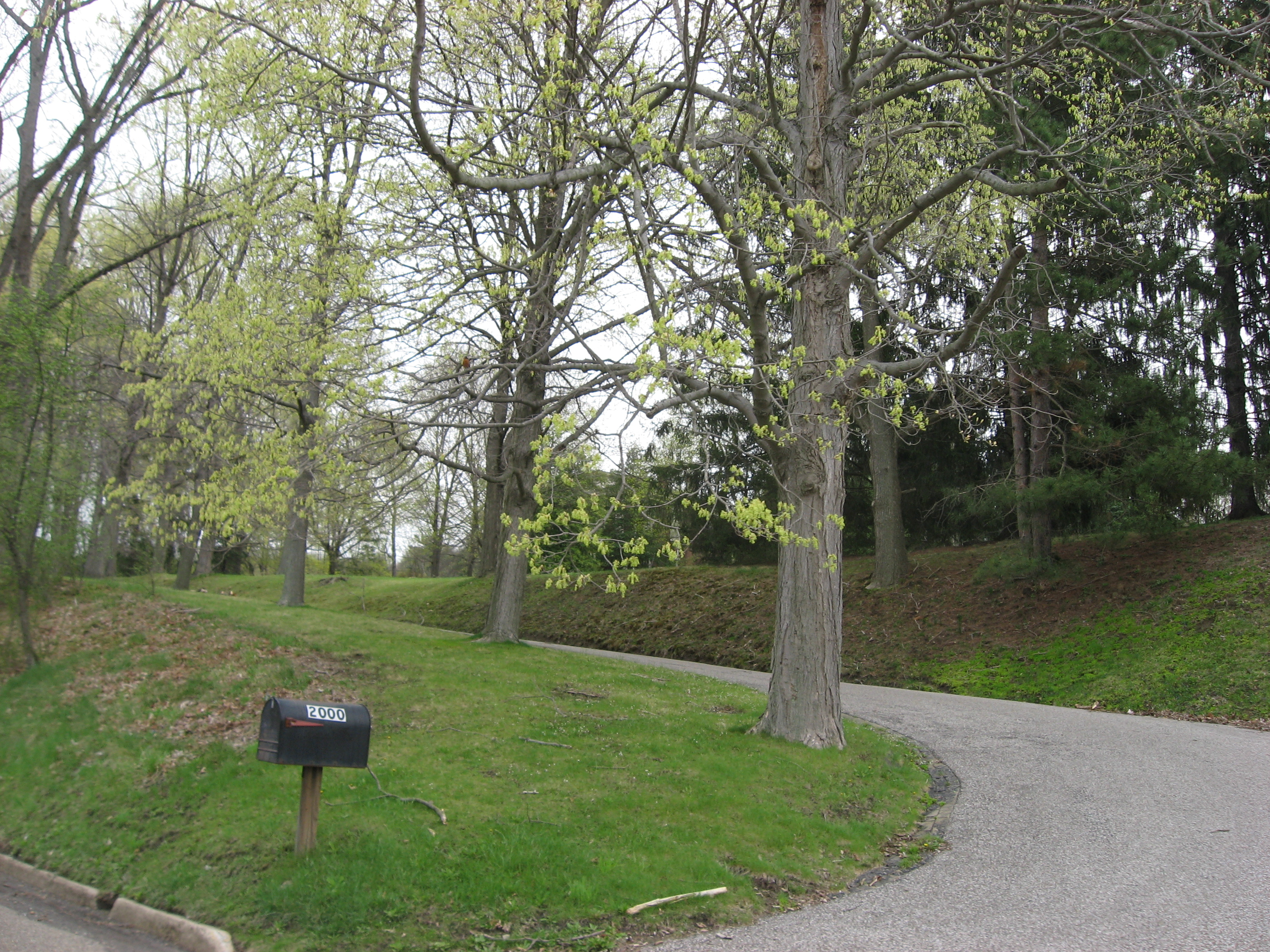 Driveway to the David and Lucy Tarr Fleming Mansion, located at 2000 Pleasant Avenue in Wellsburg, West Virginia, United States. Built in 1845, it is listed on the National Register of Historic Places.